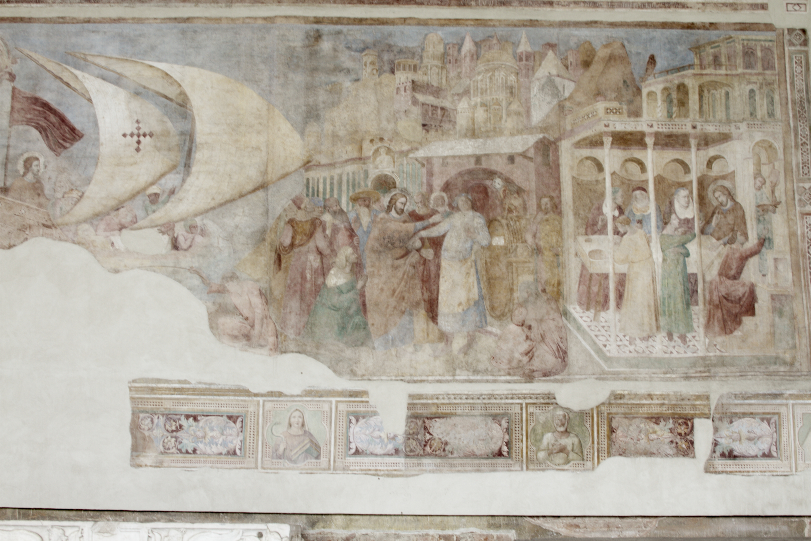 Camposanto - Pisa 2014